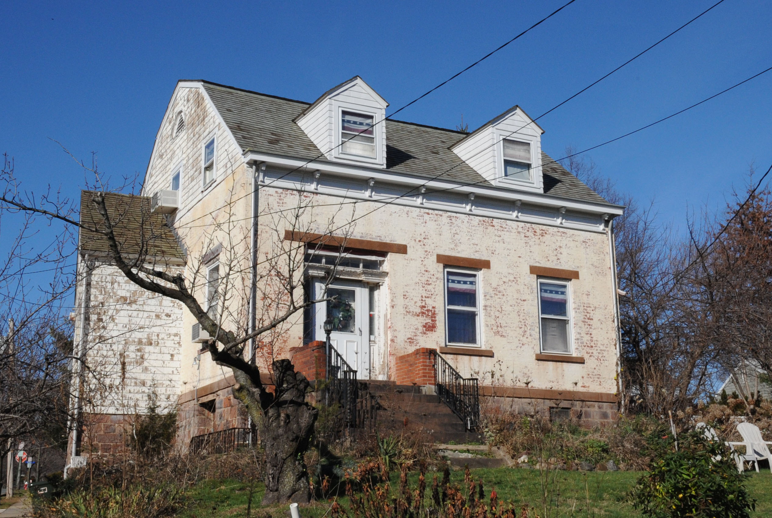 HOUSE IS BELIEVED TO HAVE BEEN BUILT IN 1804 AND WAS KNOWN VARIOUSLY AS THE JOHN W. BERRY HOUSE OR THE JURIA JURIANSON HOUSE. THE YEREANCE NAME CAME FROM THE YEREANCE FAMILY, WHICH AT ONE TIME OWNED MUCH OF THE PROPERTY IN THE VICINITY OF THE HOUSE BUT THERE IS NO EVIDENCE THEY ACTUALLY LIVED IN THIS HOUSE